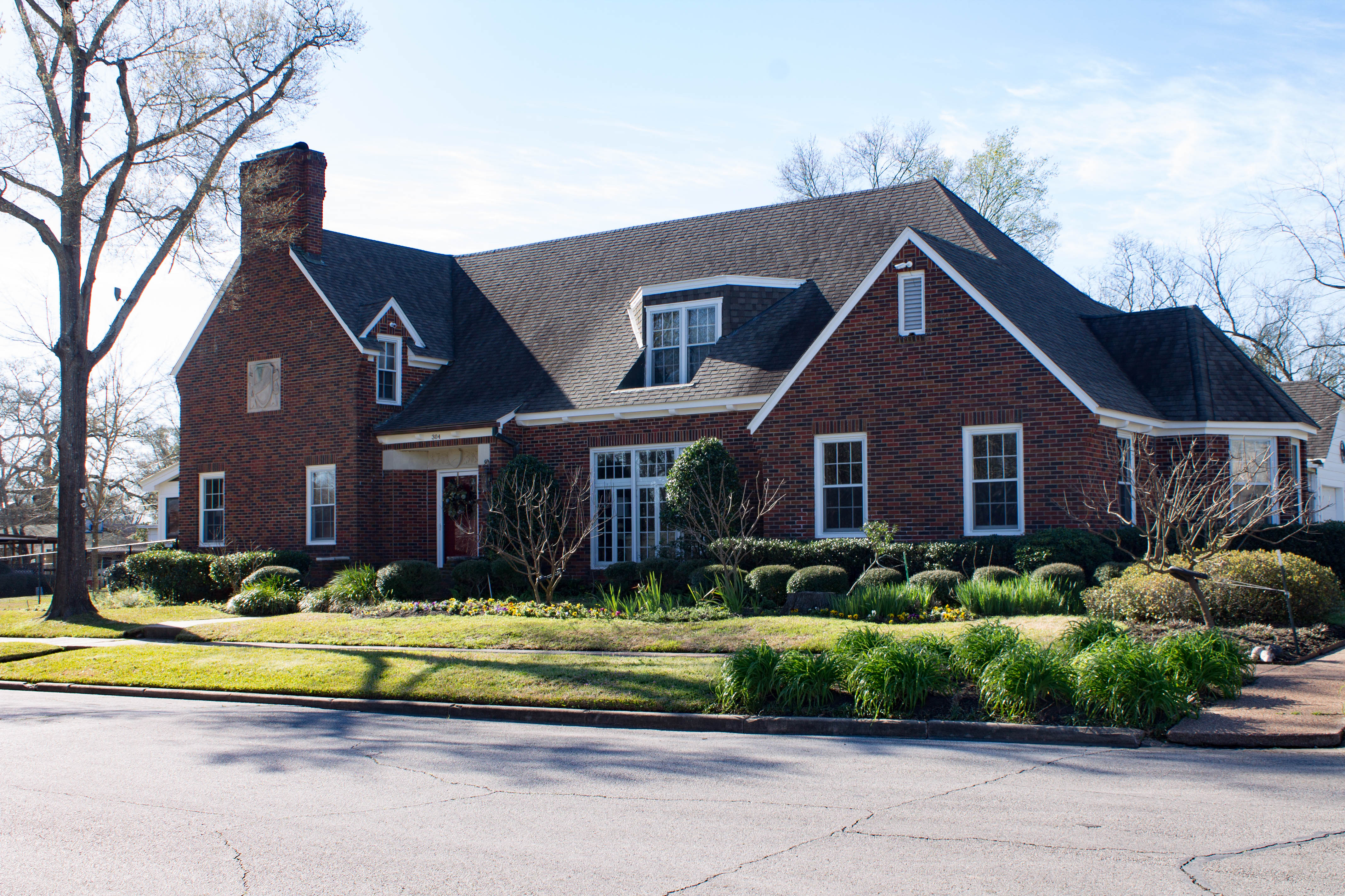 Houston Brookshire-Yates House in Lufkin, Texas